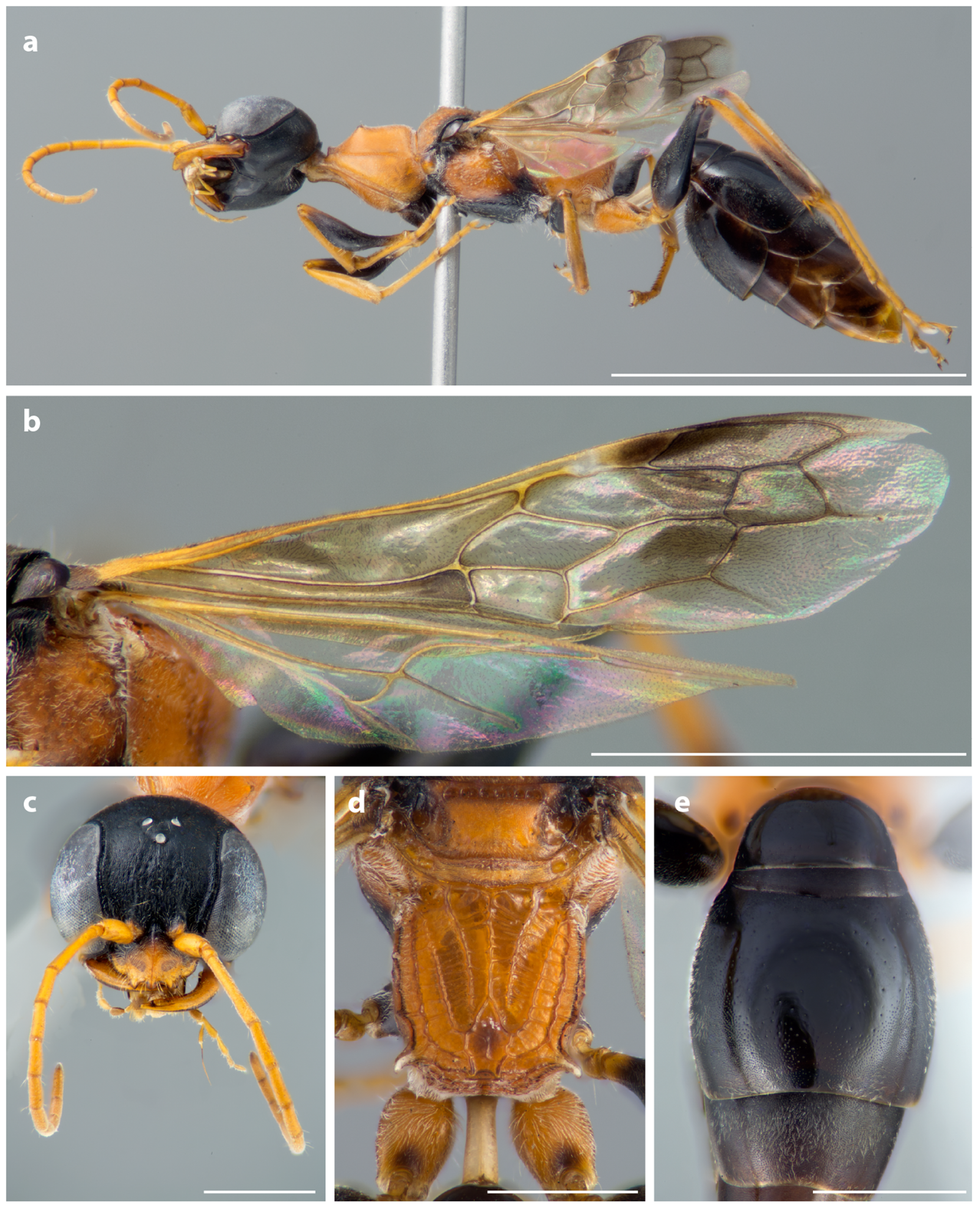 Ampulex dementor female, holotype. (A) Lateral view. (B) Left fore and hindwings. (C) Head in frontal view. (D) Propodeum in dorsal view. (E) Metasomal terga I-III in dorsal view. Scale bars: (A) 5.0 mm, (B) 2.0 mm, (C-E) 1.0 mm.